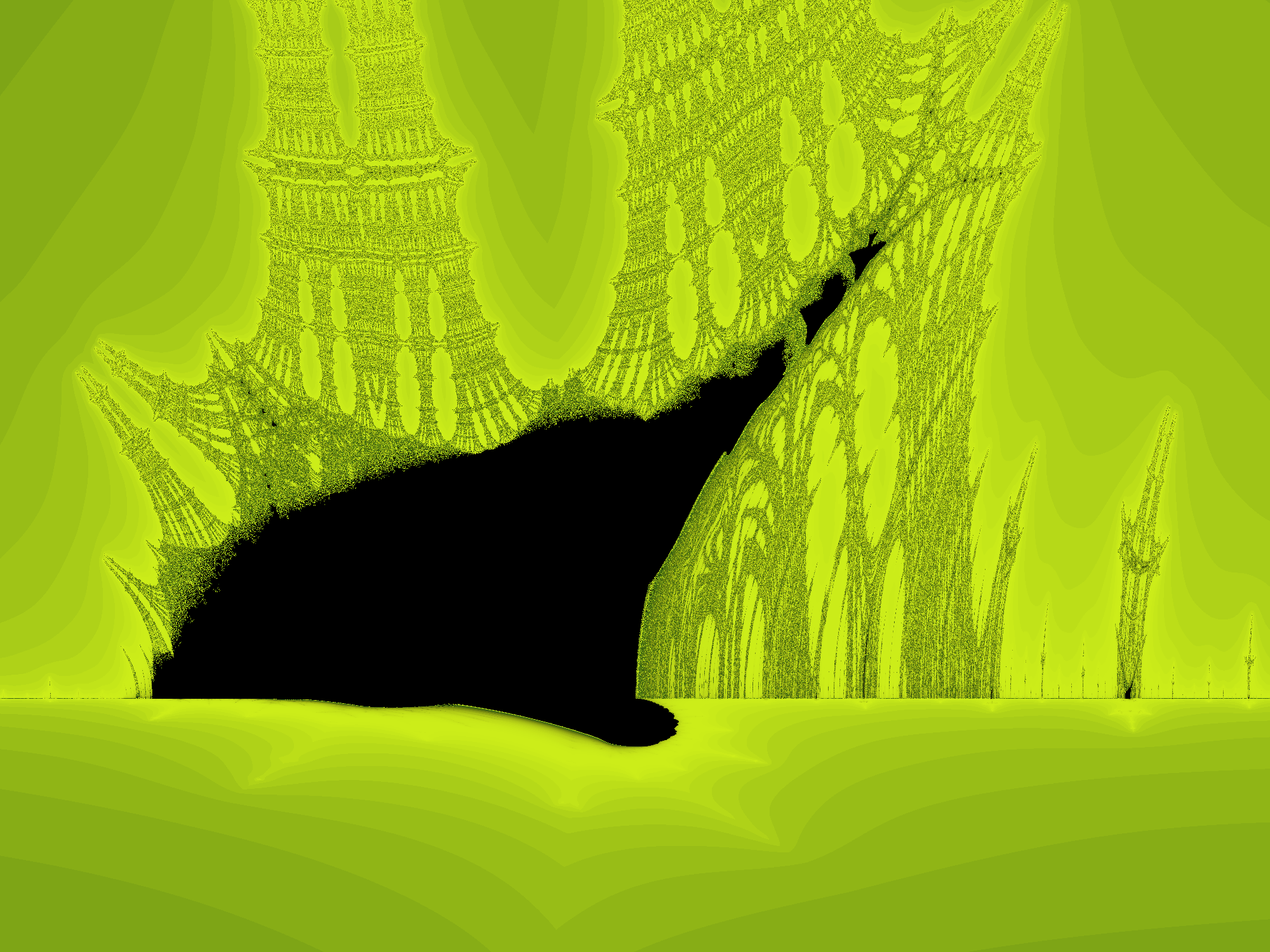 A view of the Burning Ship fractal. This is a fractal generated by iterating the following equation for each point with coordinates c in the complex plane: Z n + 1 = ( | ℜ ( Z n ) | − i | ℑ ( Z n ) | ) 2 + c , Z 0 = 0 {\displaystyle Z_{n+1}=\left(|\Re \left({Z_{n \right)|-i|\Im \left({Z_{n \right)|\right)^{2}+c,\quad Z_{0}=0} This image is in the complex plane with lower left corner (-1.8, -0.02i) and upper right corner (-1.7, 0.055i). Some descriptions of this fractal give the equation with an addition rather than a subtraction. This produces a reflection in the real-axis, which means that it is hard to see the "burning ship". If the iteration "escapes" to large numbers, it is coloured according to how long it took to reach a cutoff point (here, 40). If it does not escape after 100 iteration, the point is coloured black. This image was made in Ultrafractal 4.